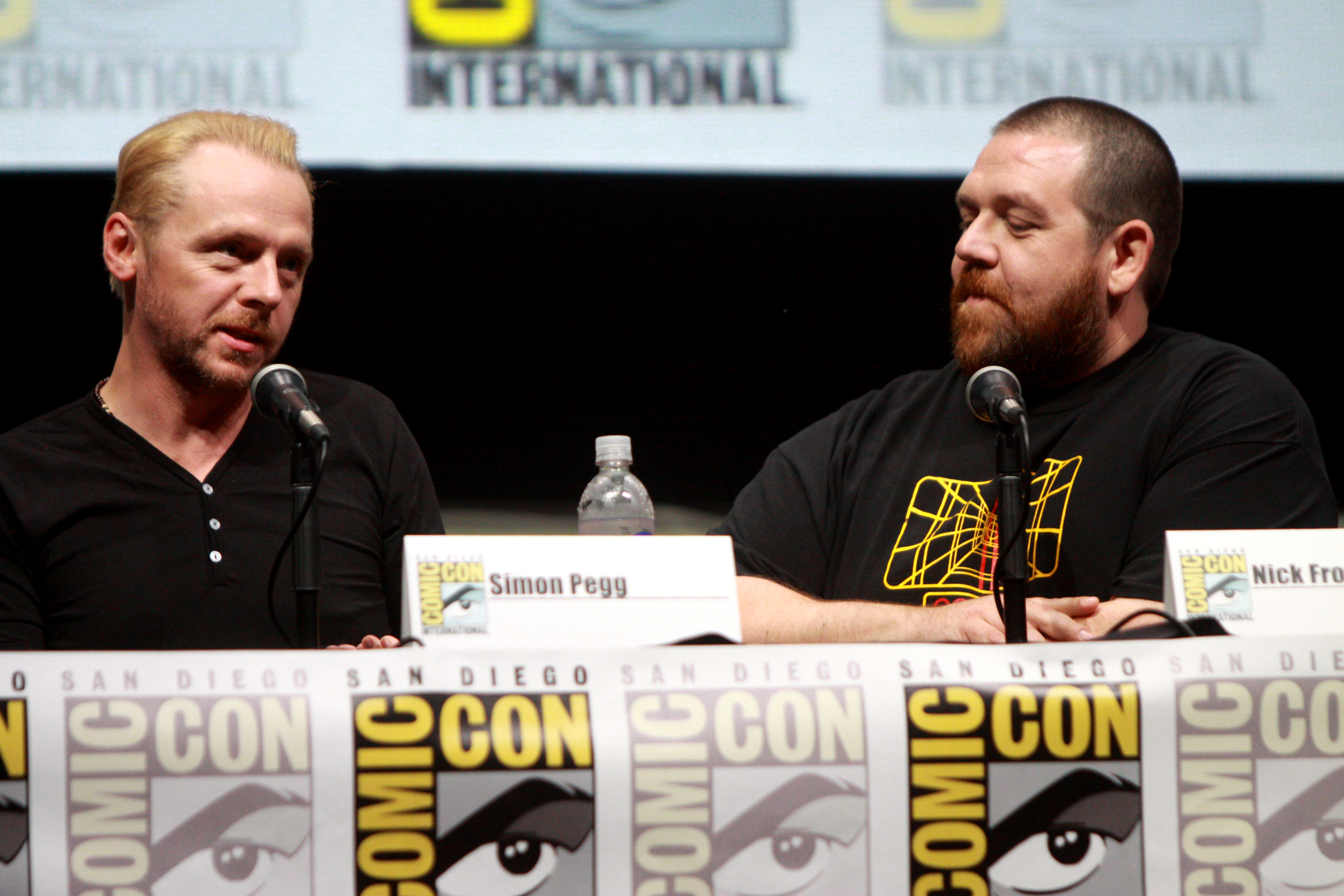 Simon Pegg and Nick Frost speaking at the 2013 San Diego Comic Con International, for "The World's End", at the San Diego Convention Center in San Diego, California.